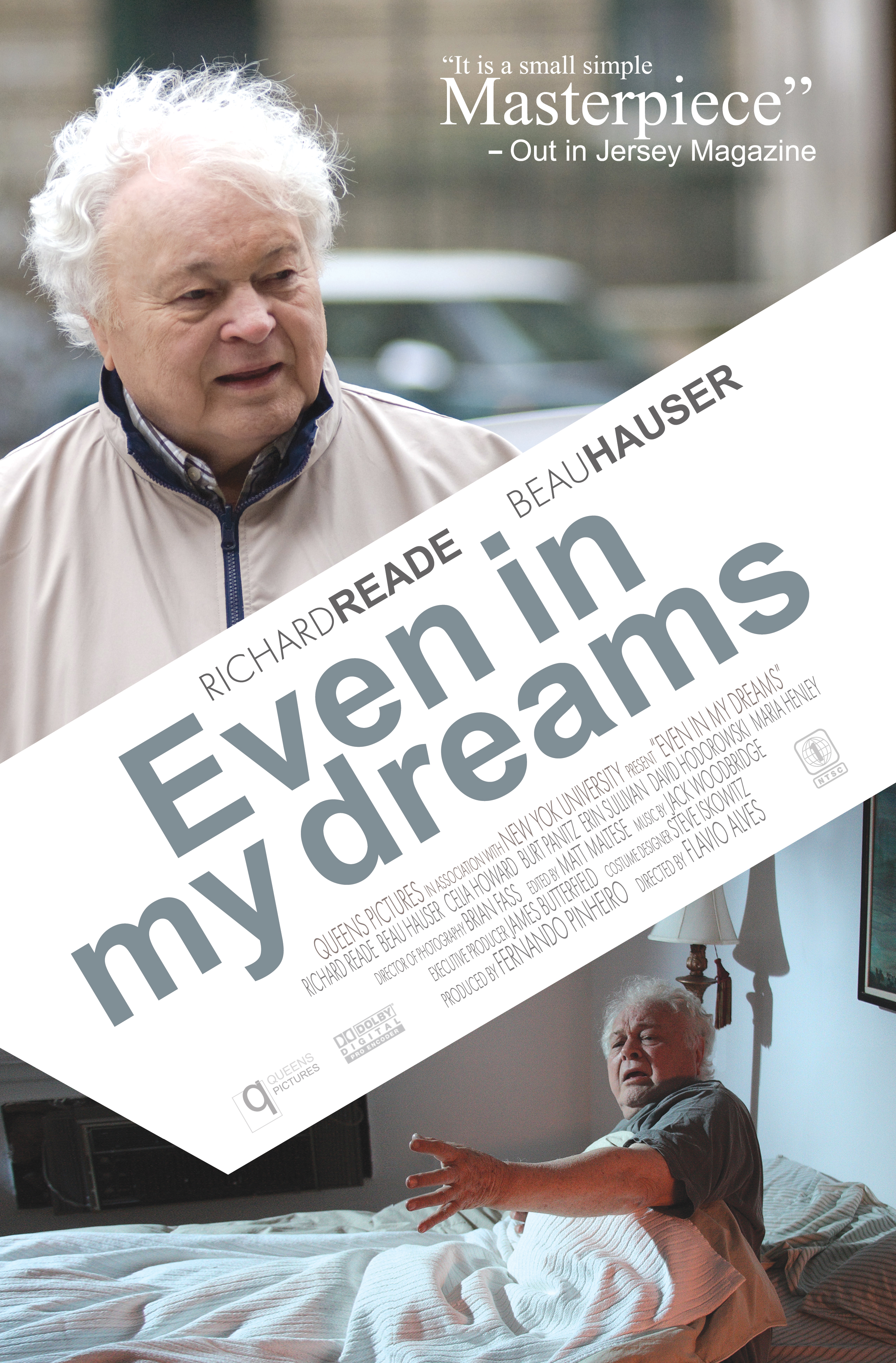 Theatrical Poster for the film Even in My Dreams, directed by Flavio Alves, on Sept 2009